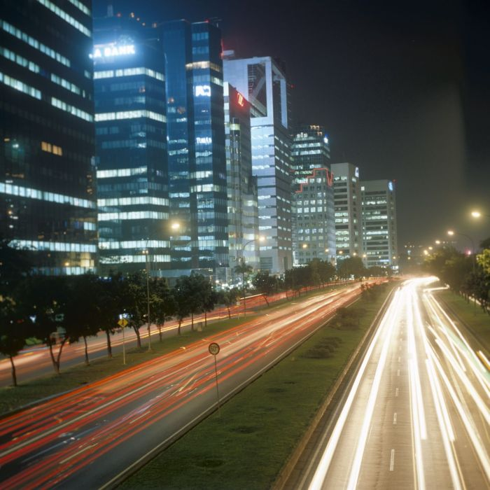 Street view with offices and hotels in the centre of Jakarta at night